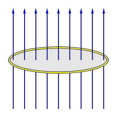 Principles of magnetic flux compression - first phase Inspired by a drawing in a document from Los Alamos National Laboratory